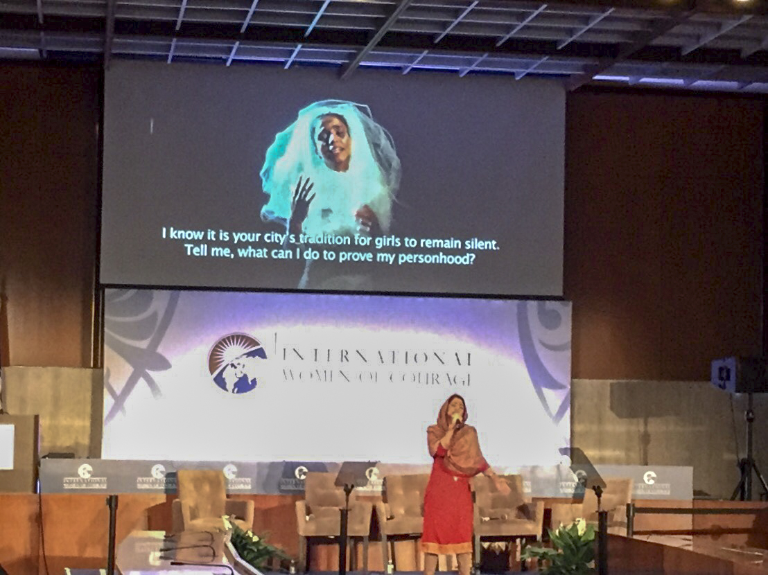 Afghan rapper Ms. Sonita Alizadeh performs at the International Women of Courage forum at the U.S. Department of State in Washington, D.C., March 29, 2016. Projected on the screen above are her lyrics: "I know it is your city's tradition for girls to remain silent. Tell me, what can I do to prove my personhood?" State Department photo by Lawrence Schwartz / public domain. More photos here: More about the winners here